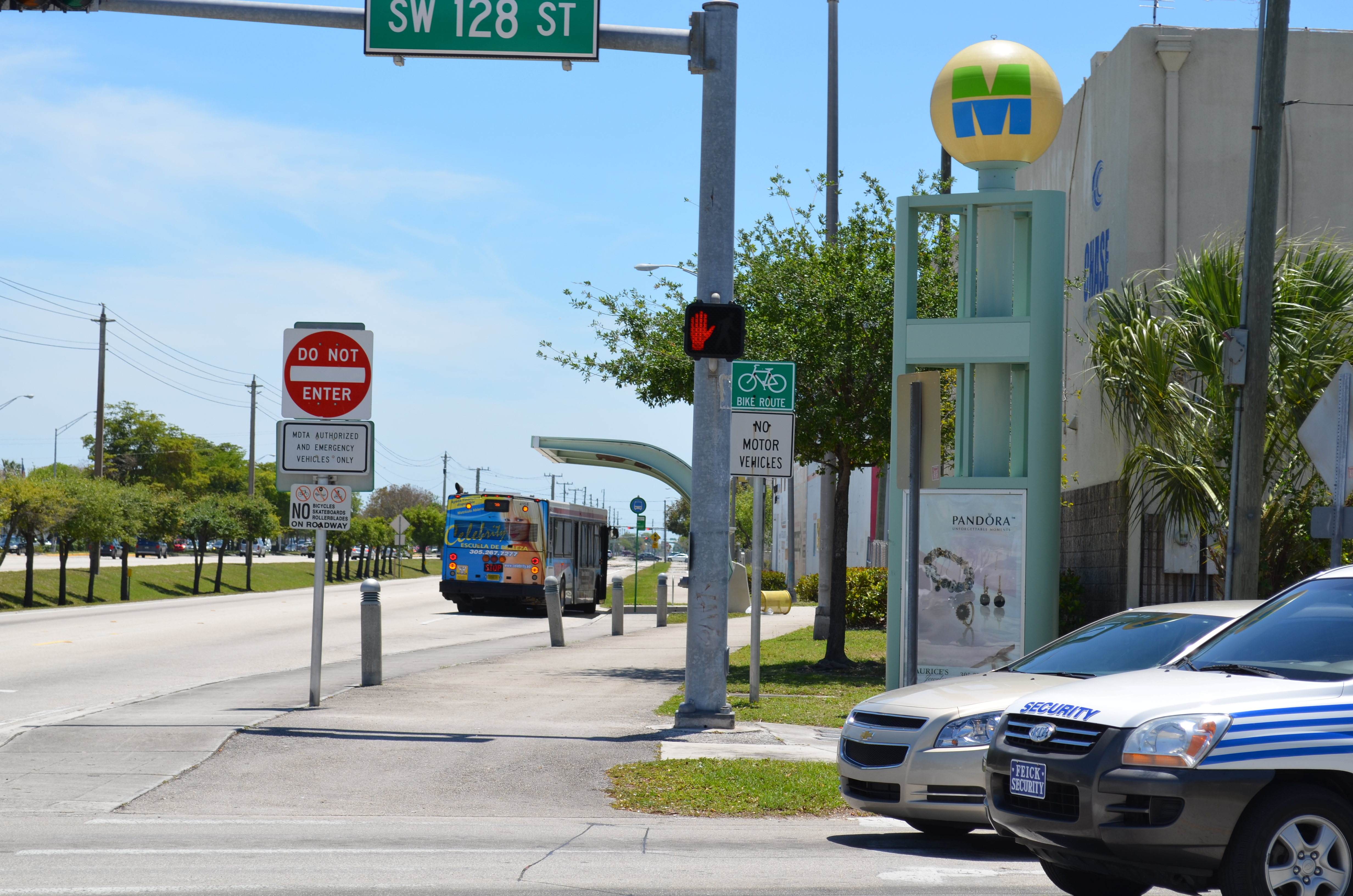 A level crossing of the South Miami-Dade Busway